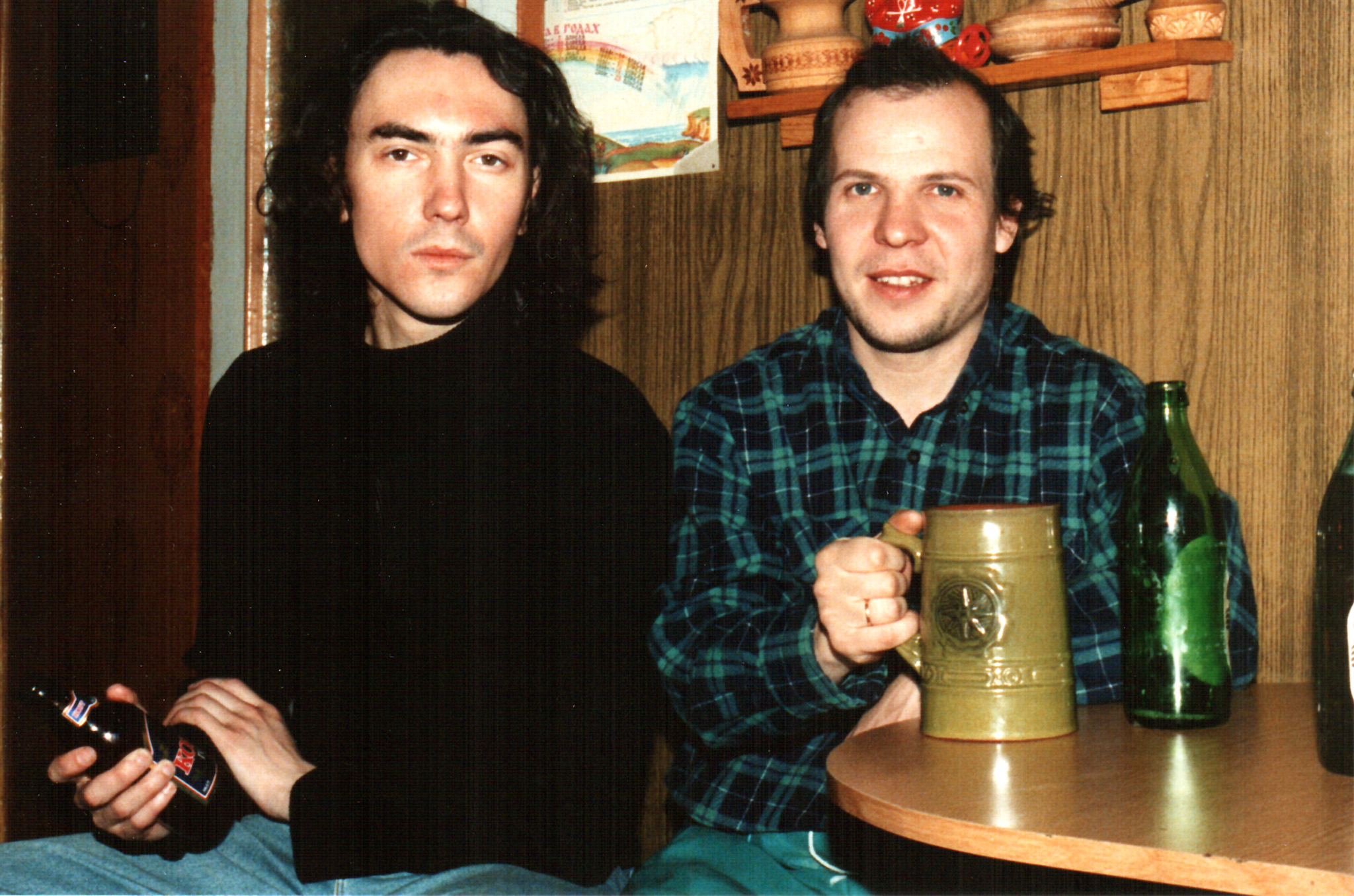 Igor Rudik and Dmitry Larionov of the Russian rock band Deti as photographed in Saint Petersburg, Russia, in 1993.